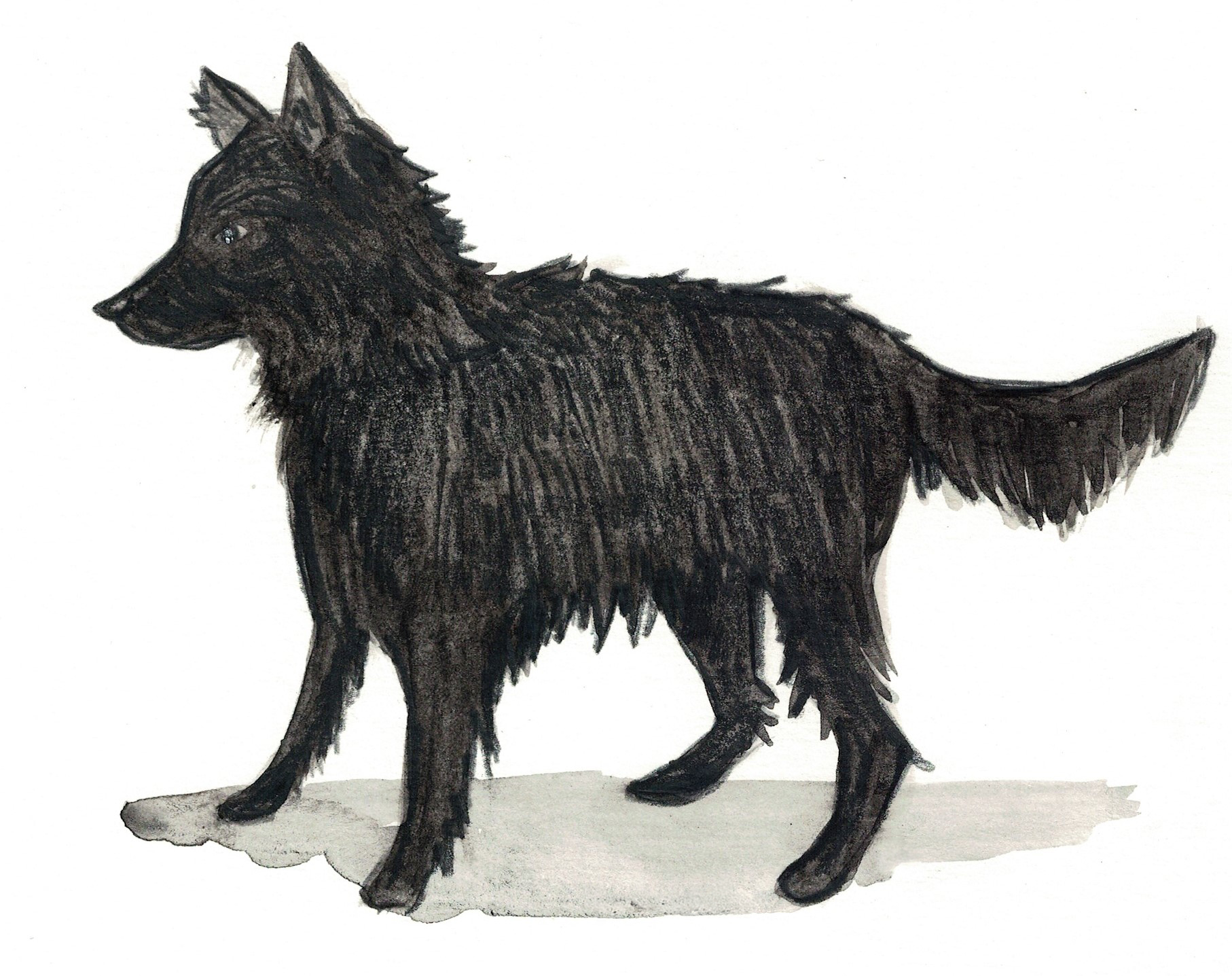 Fan art representing Sirius Black in his animagus form, made with charcoal and watercolours by Mademoiselle Ortie aka E. Tihange